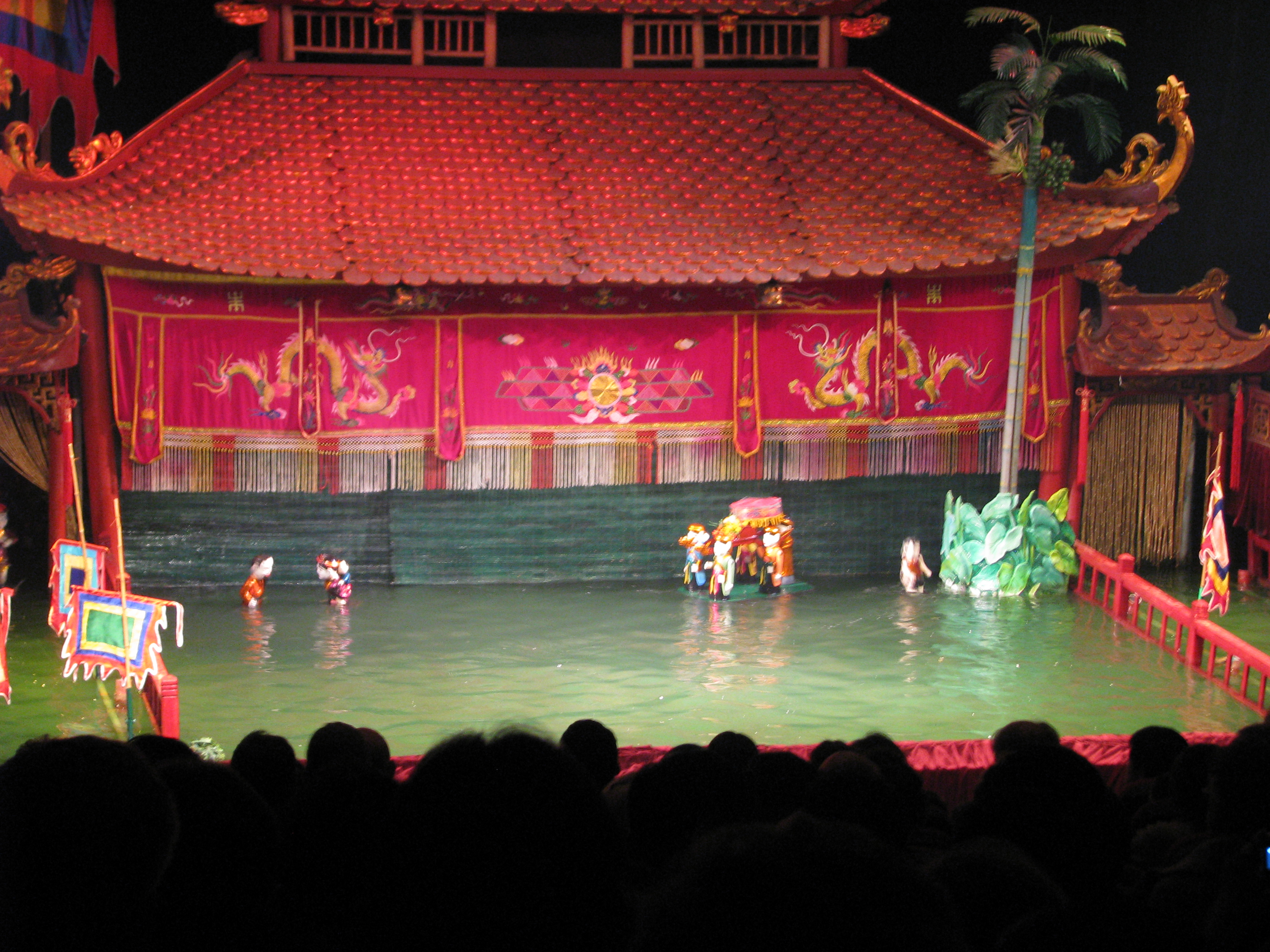 Traditional water puppet theatre where intricate and beautiful wooden puppets, dragons, fisherman, farmers and animals dance and move across the stage. Set to tradional music and using lights and fireworks as well, it was definitely worth seeing.